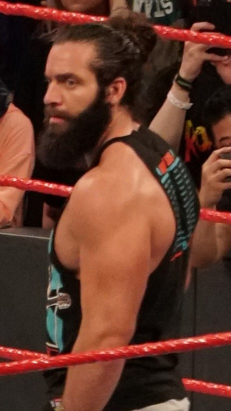 Elias on Raw in April 2018.